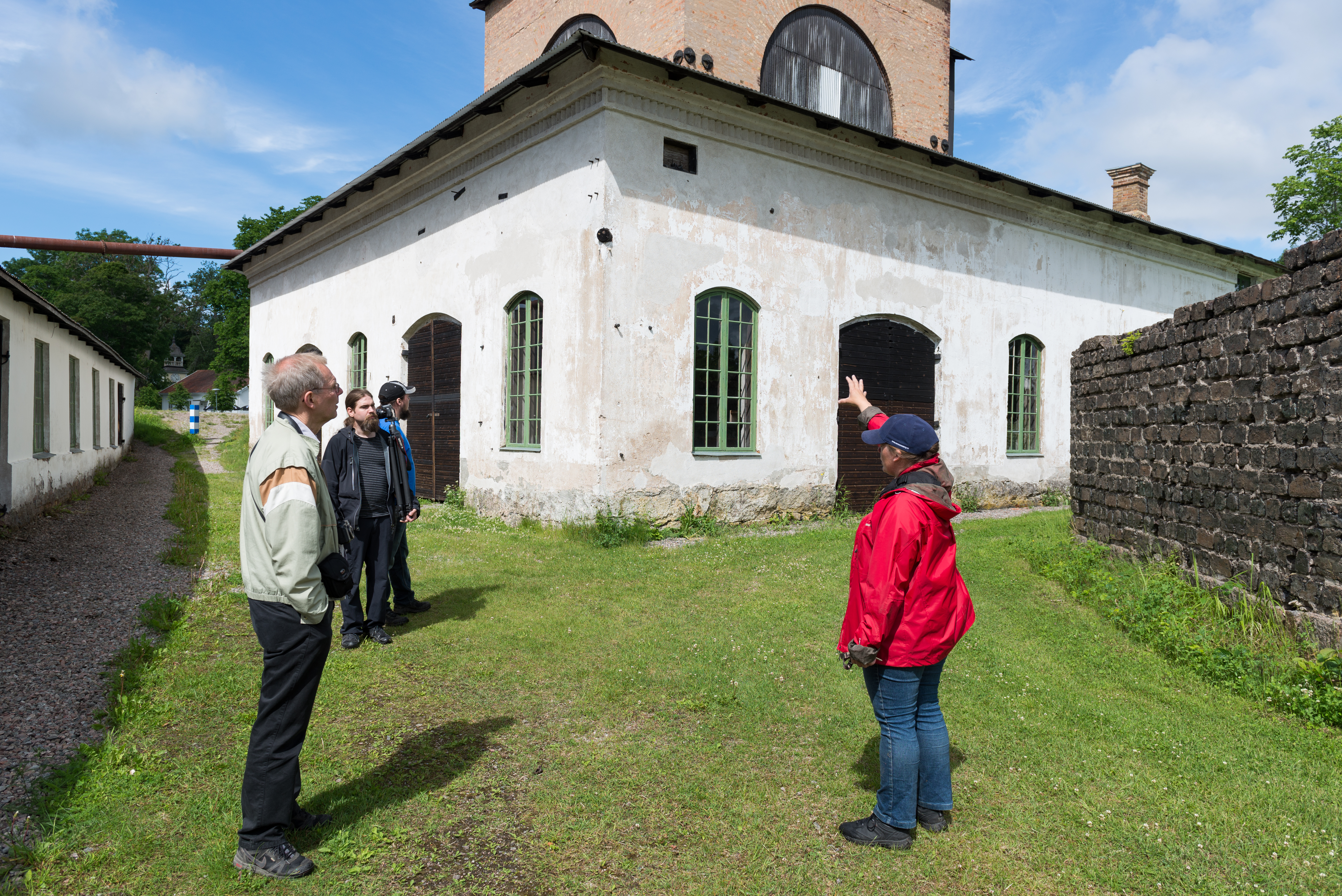 Tour Guide showing Strömsberg for some Swedish Wikipedians. Strömsberg is a old iron mill and village in Tierp Municipality, Sweden.